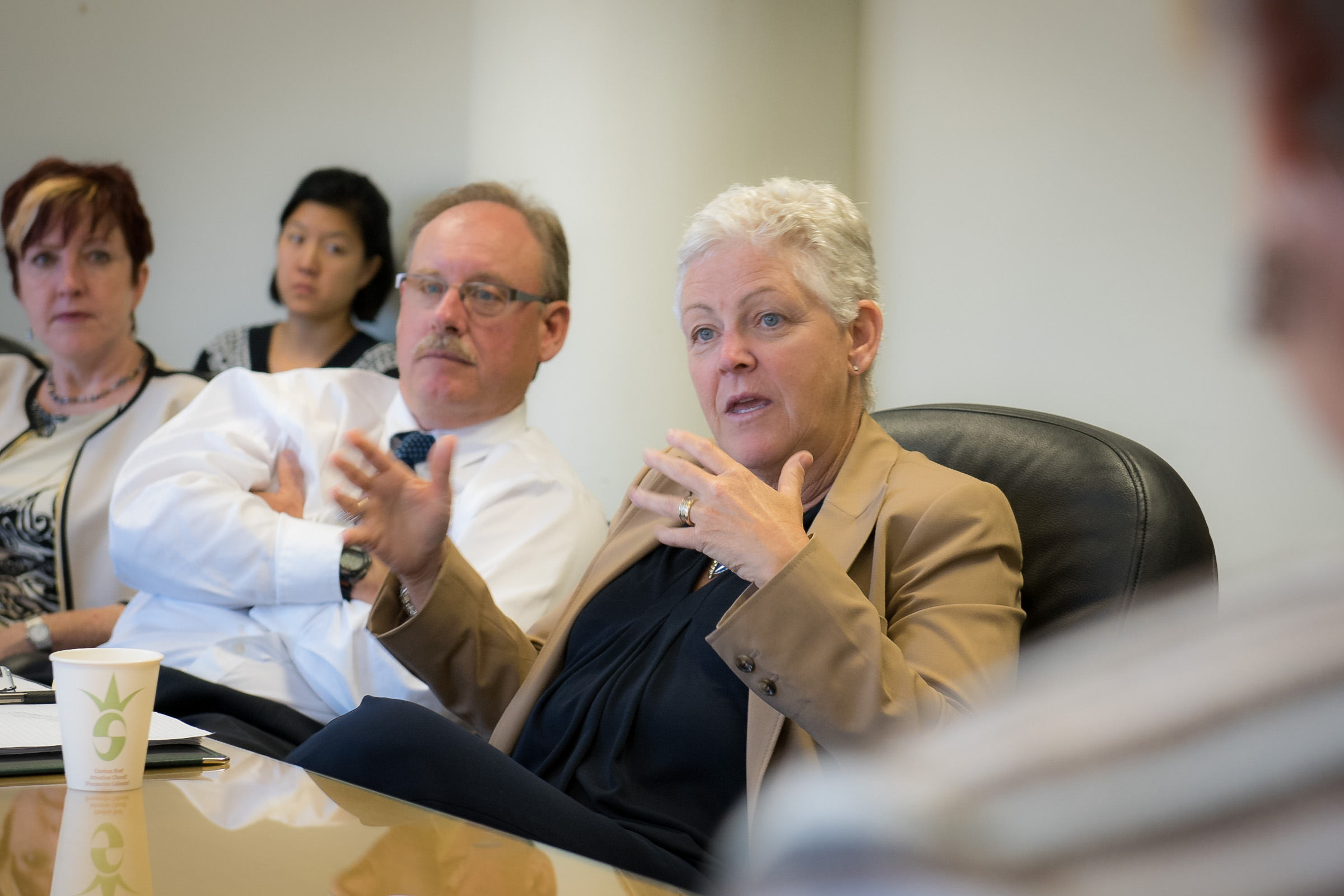 Administrator McCarthy meets with community members from Health Resources in Action to discuss their mission to increase capacity and collaboration across New England to reduce environmental asthma triggers.